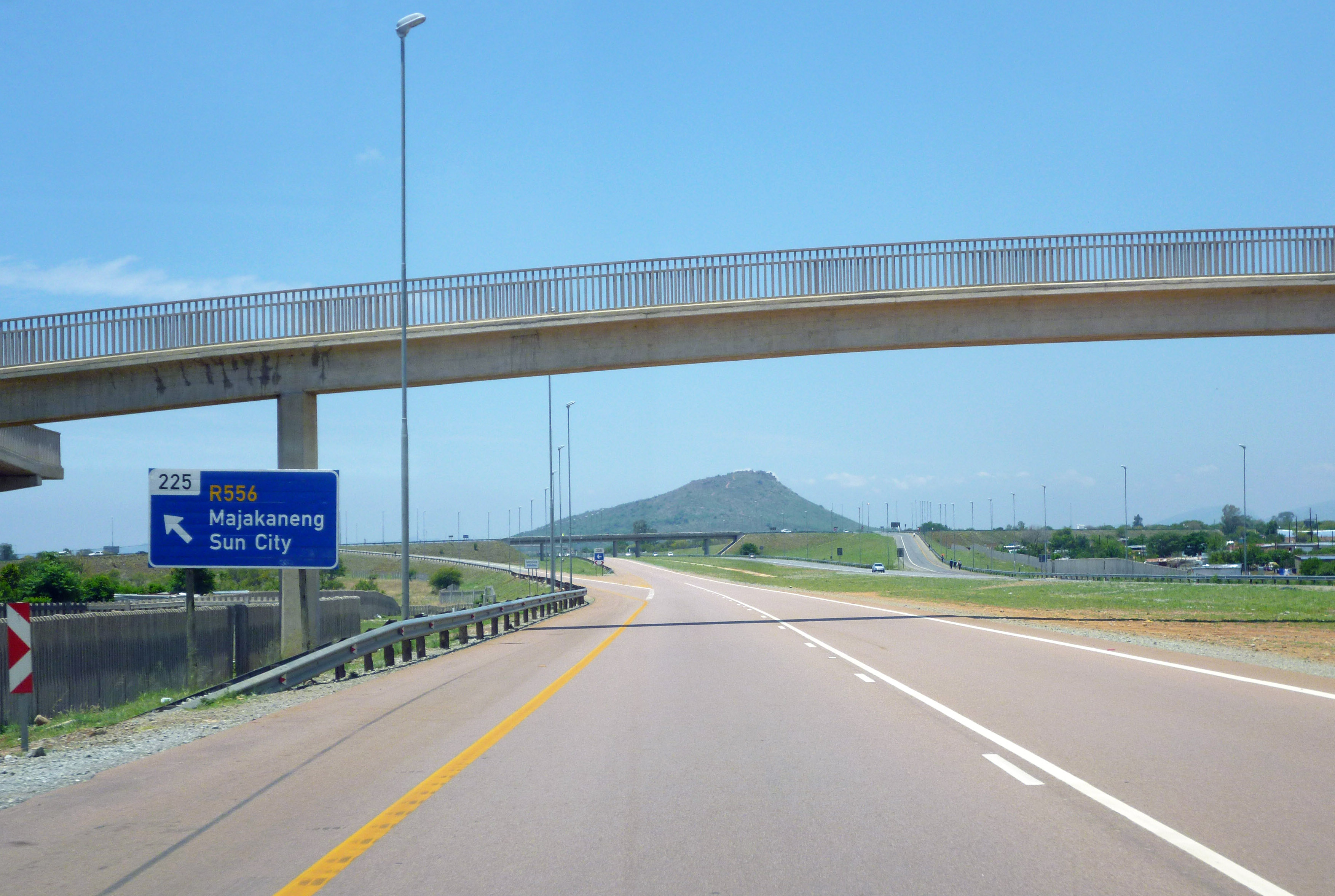 The N4 road eastbound at the interchange with the R556 road near Modderspruit, South Africa. Photographed by user Coolcaesar on November 23, 2013.